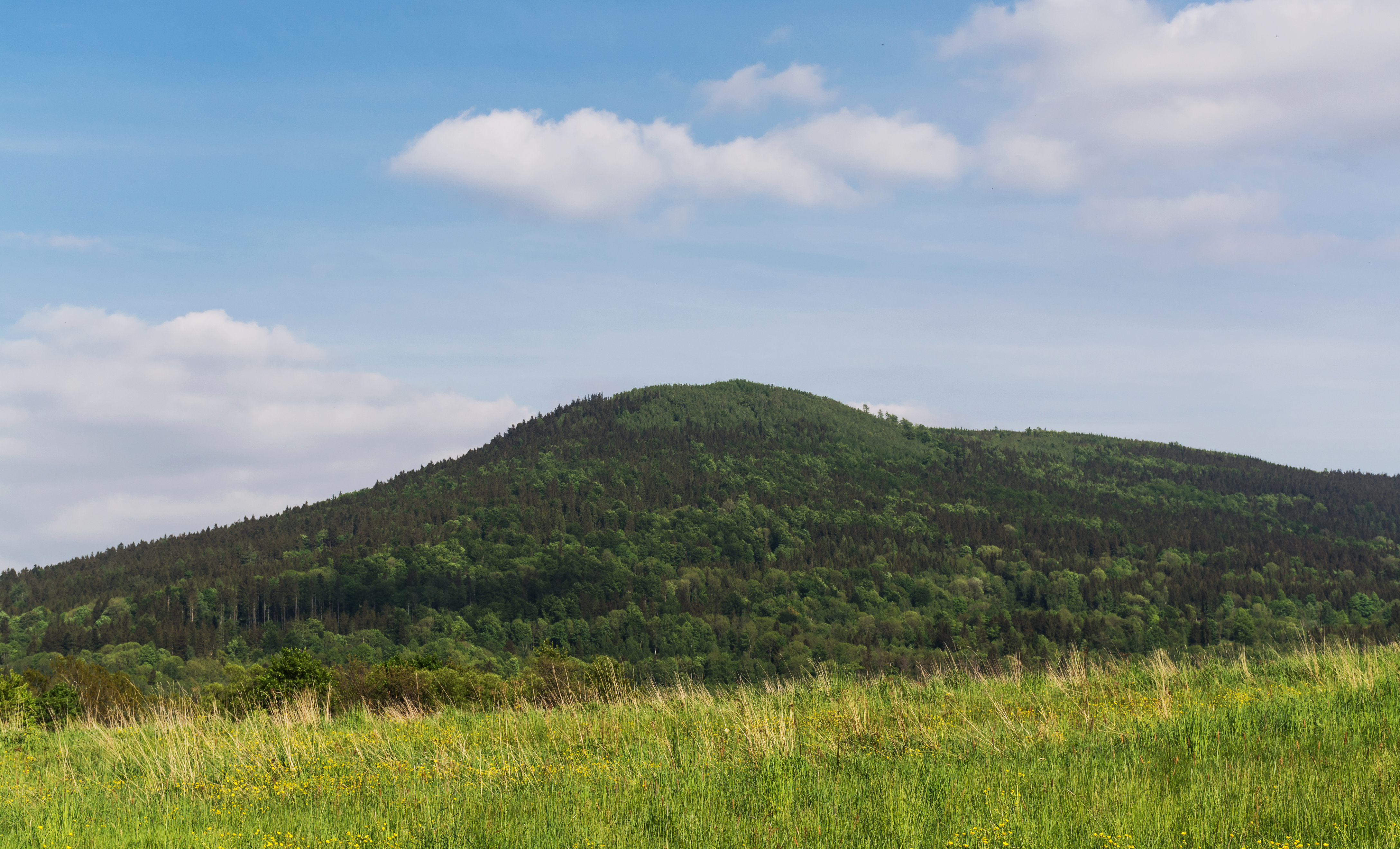 Łysiec, Sudetes, Poland